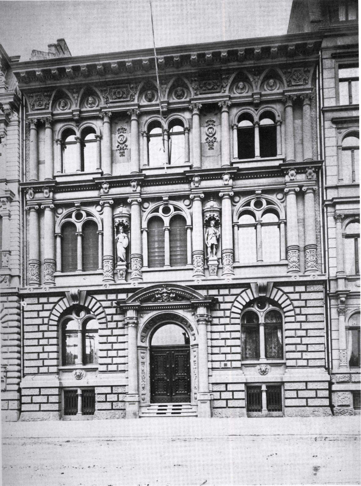 z